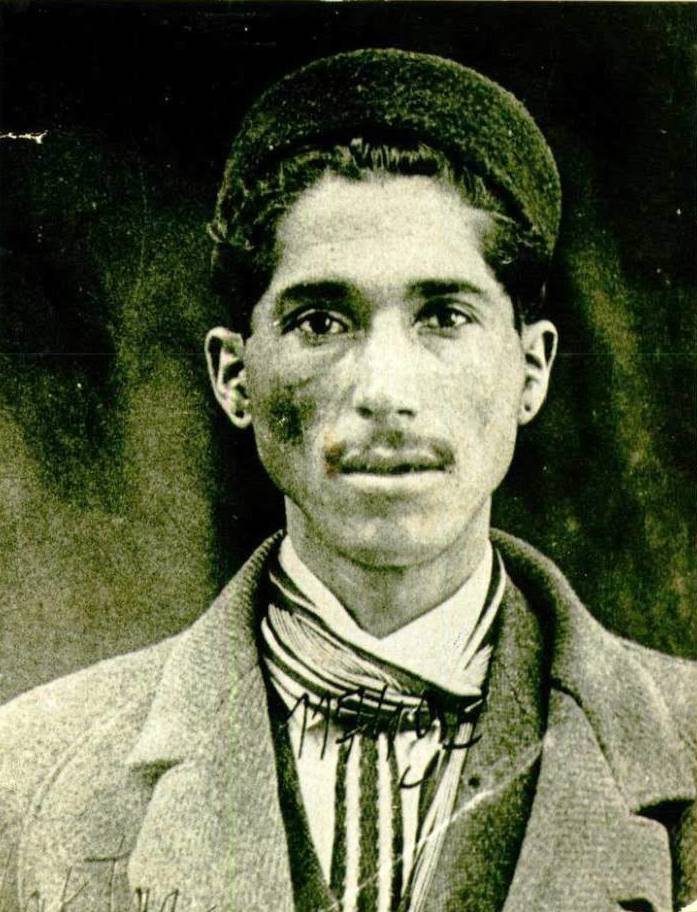 Mohamed Ali Hammi